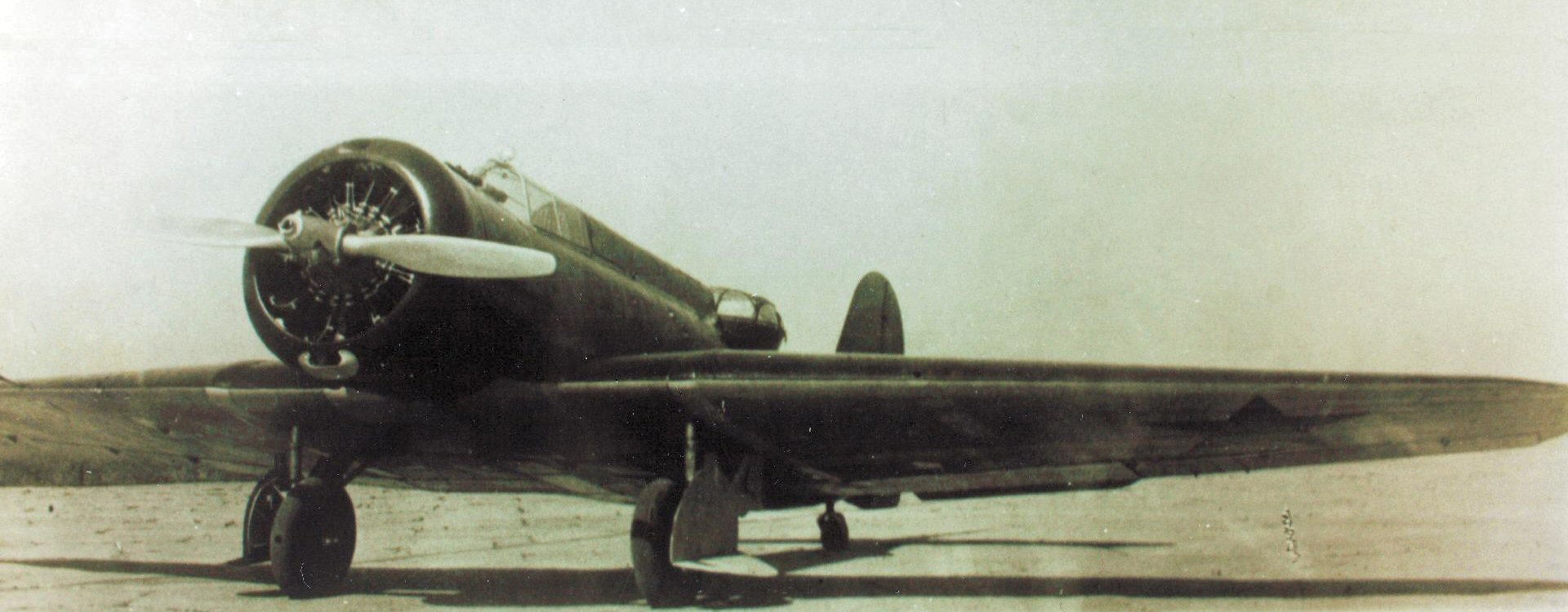 Catalog #: 01_00086240 Title: Neman I.G., KhA-5 (R-10) Corporation Name: Neman I.G. Additional Information: Russia Designation: KhA-5 (R-10) Tags: Neman I.G., KhA-5 (R-10) Repository: San Diego Air and Space Museum Archive